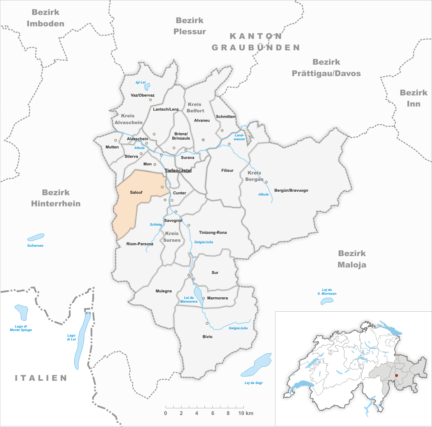 Municipality Salouf